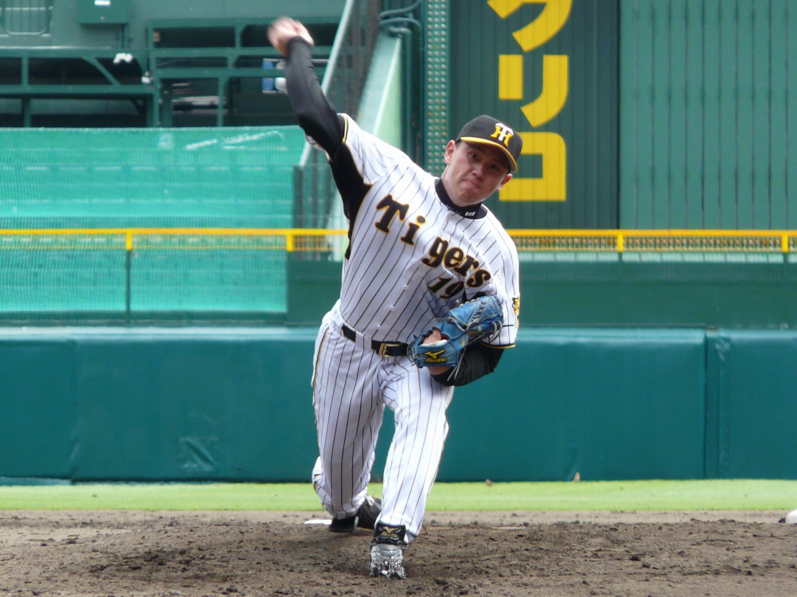 Xiao Yijie